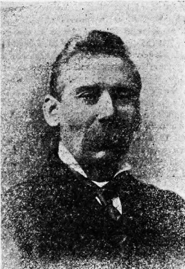 Daronwy Isaac, Mining Agent for the Anthracite District of the South Wales Miners' Federation